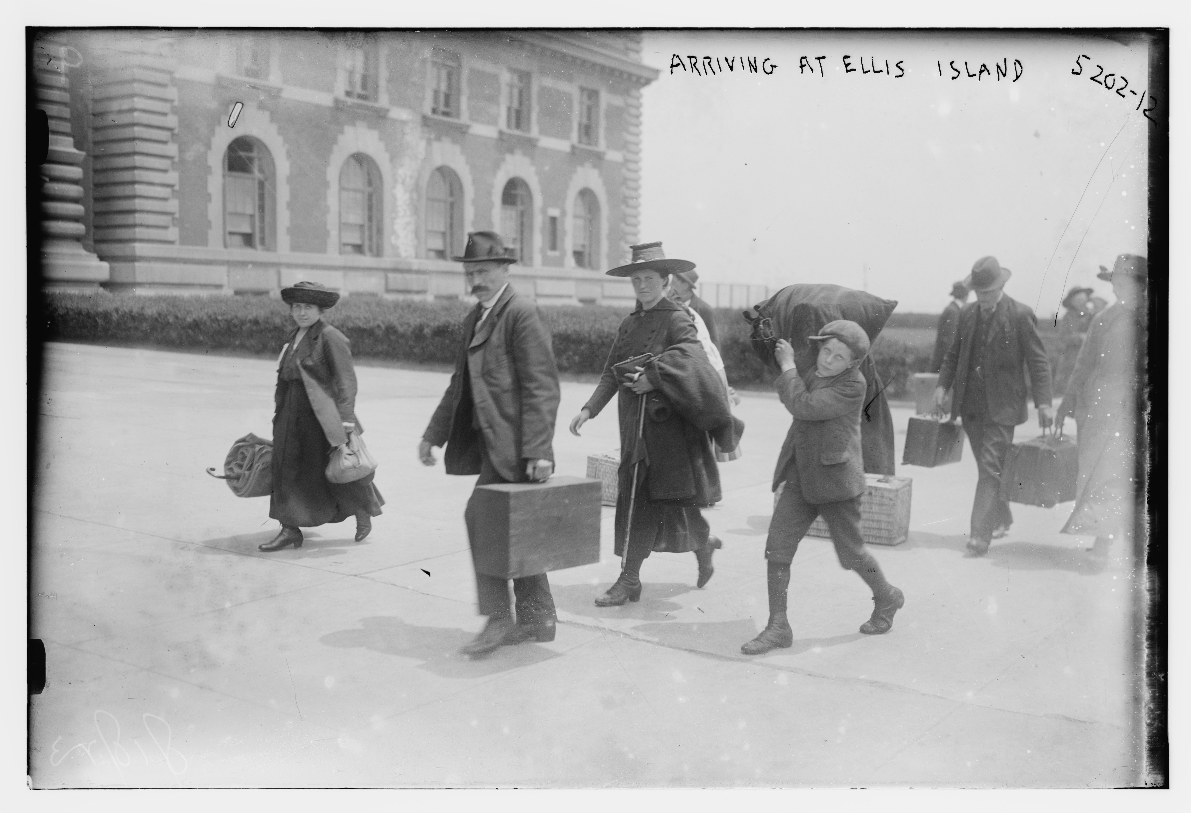 Title: Arriving at Ellis Island Abstract/medium: 1 negative : glass ; 5 x 7 in. or smaller.